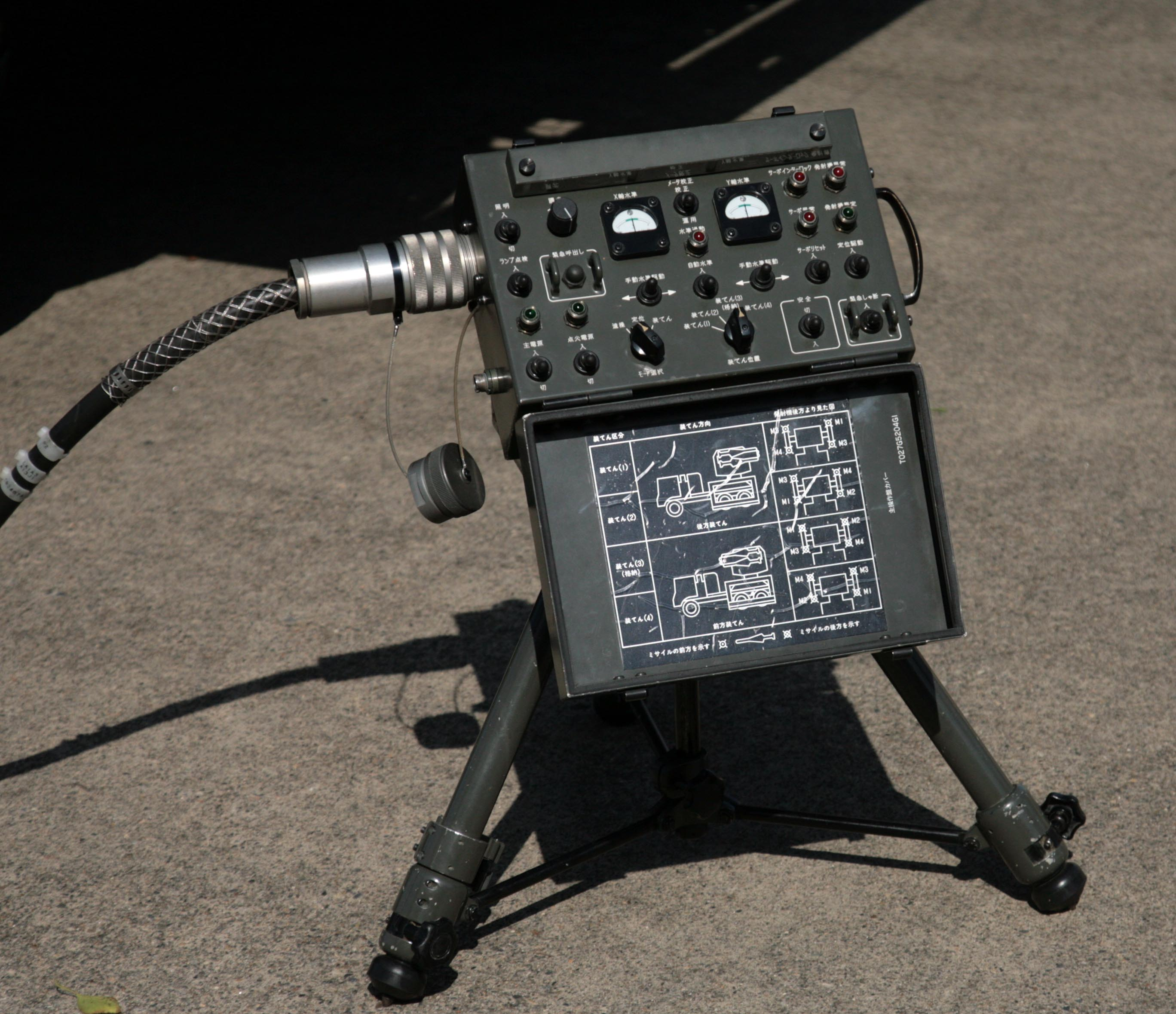 A Japanese Tan-SAM Type 81 SAM remote control box